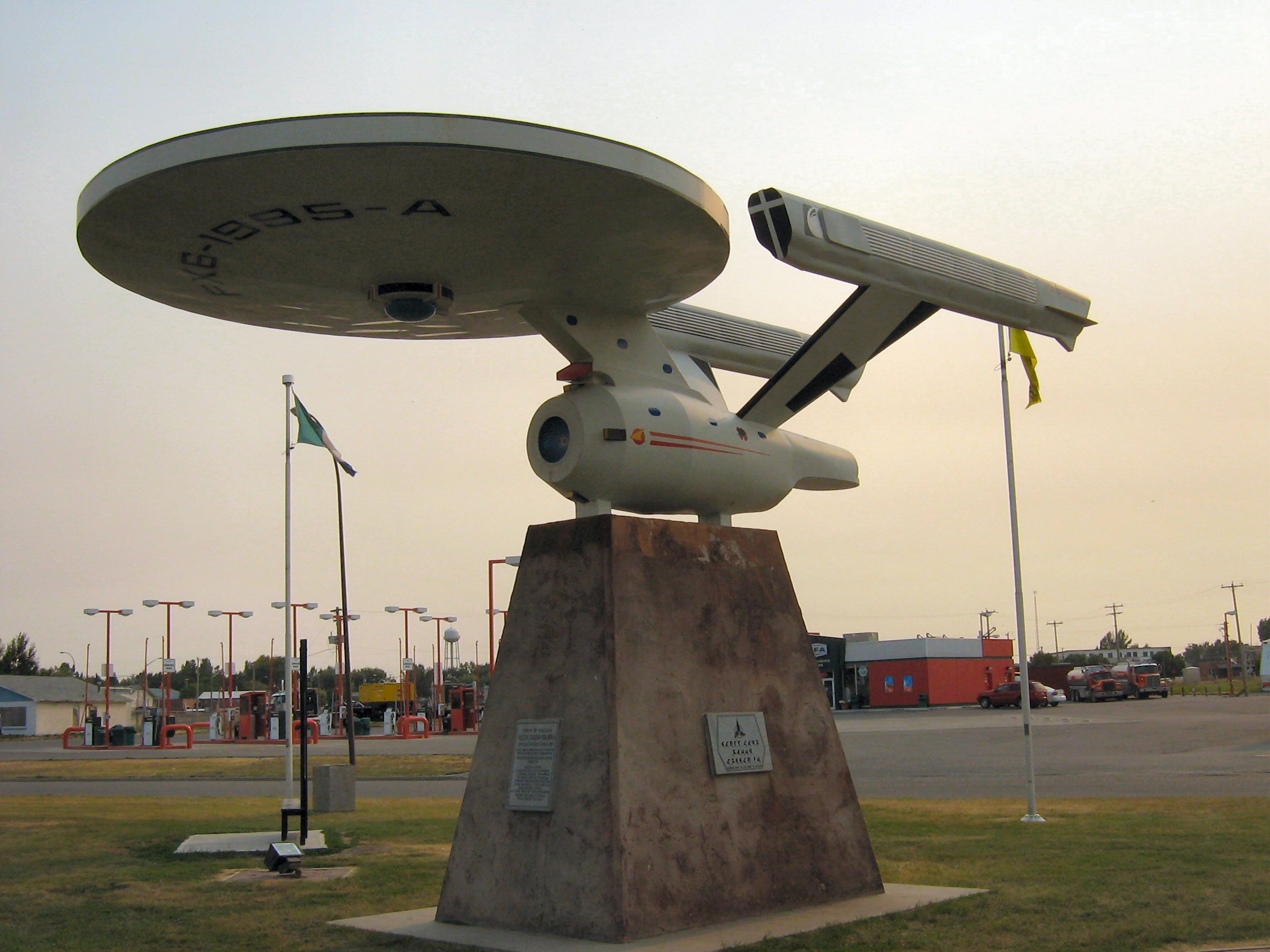 The famous landmark in Vulcan, Alberta.